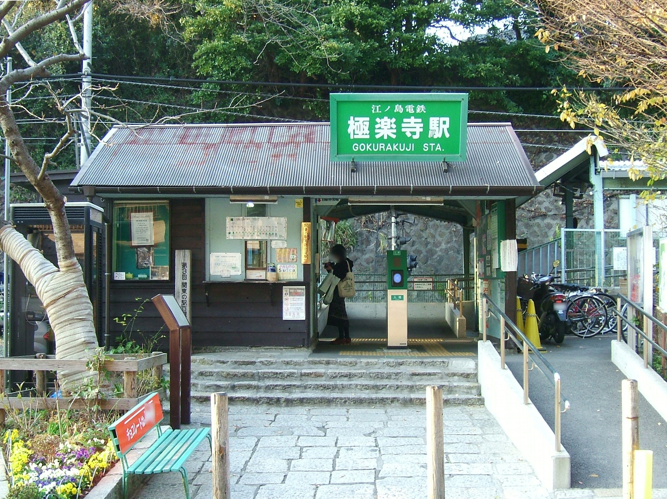 The building of Gokurakuji Station on the Enoden Line in Kamakura city, Kanagawa prefecture, Japan